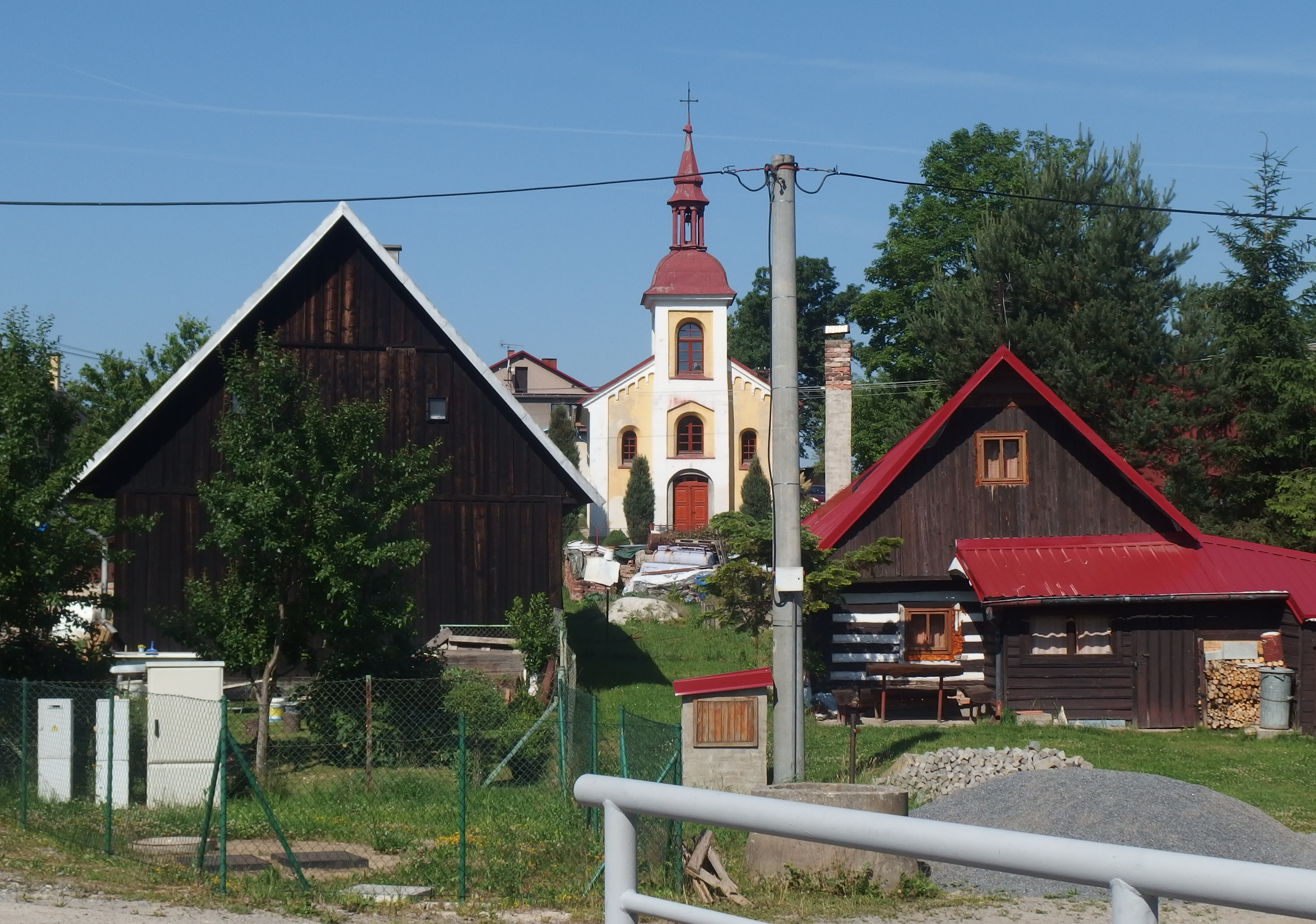 Vortová, Chrudim District, Czech Republic.